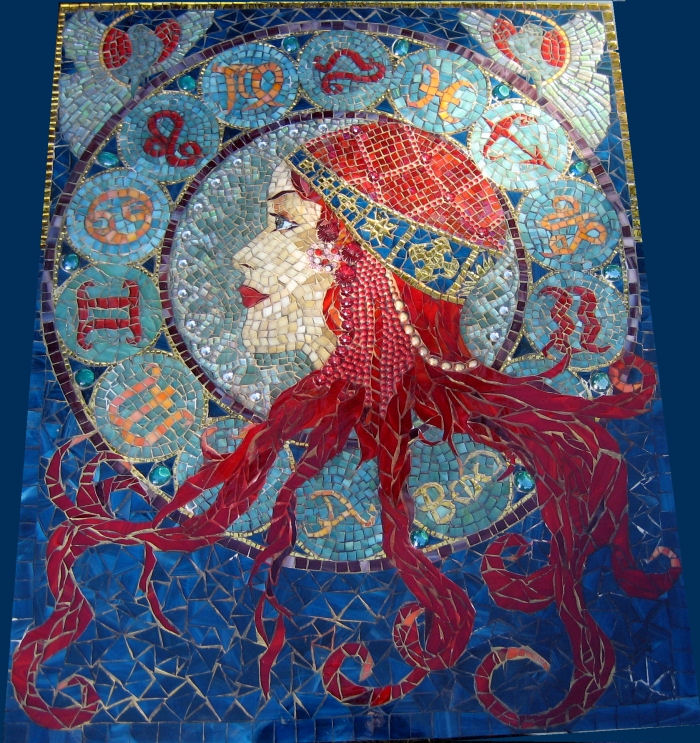 mosaic with glass